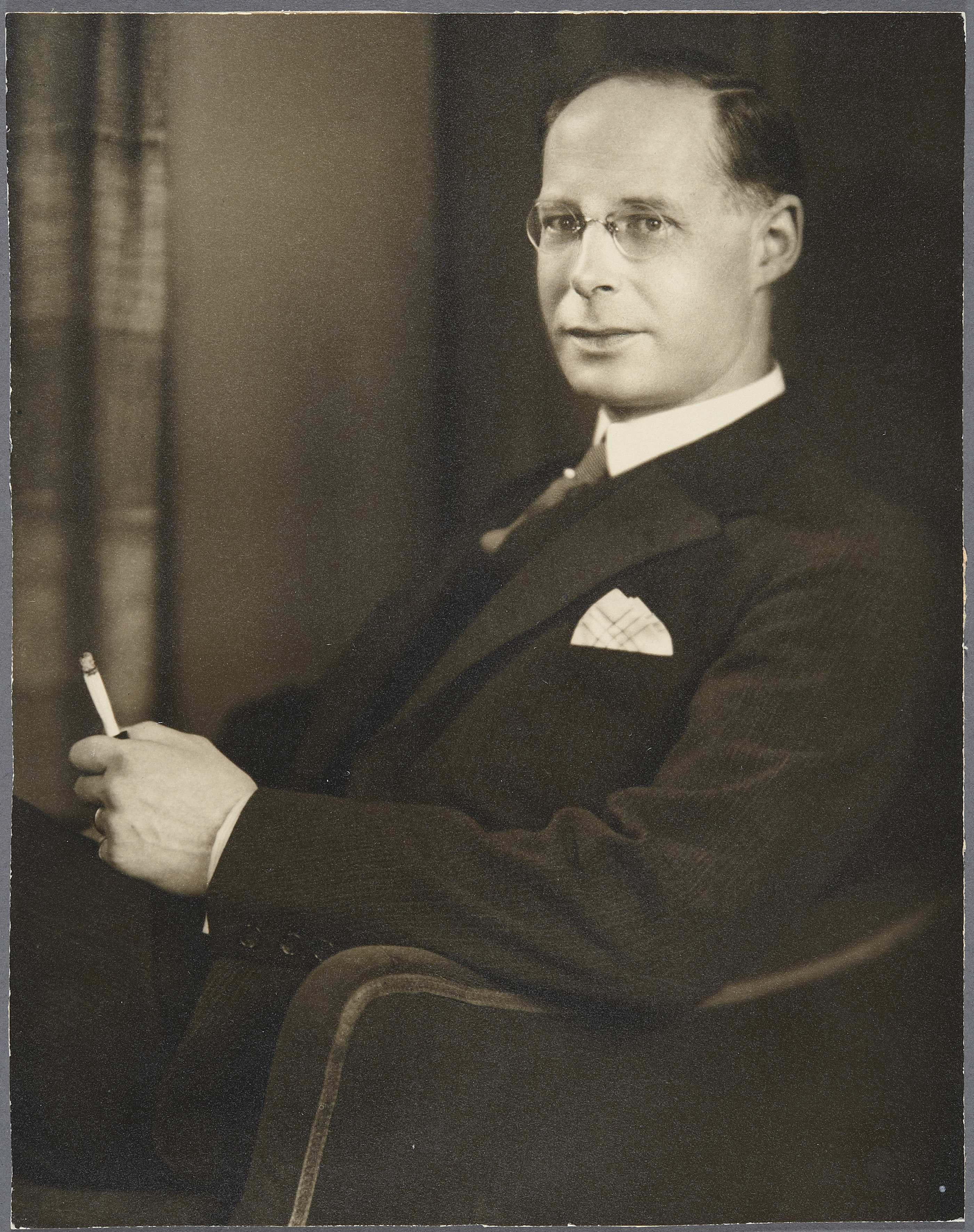 Photograph of the Dutch-Russian conductor and musicologist Nikolai (Nicolaus) Ferdinand van Gilse van der Pals (1891–1969).